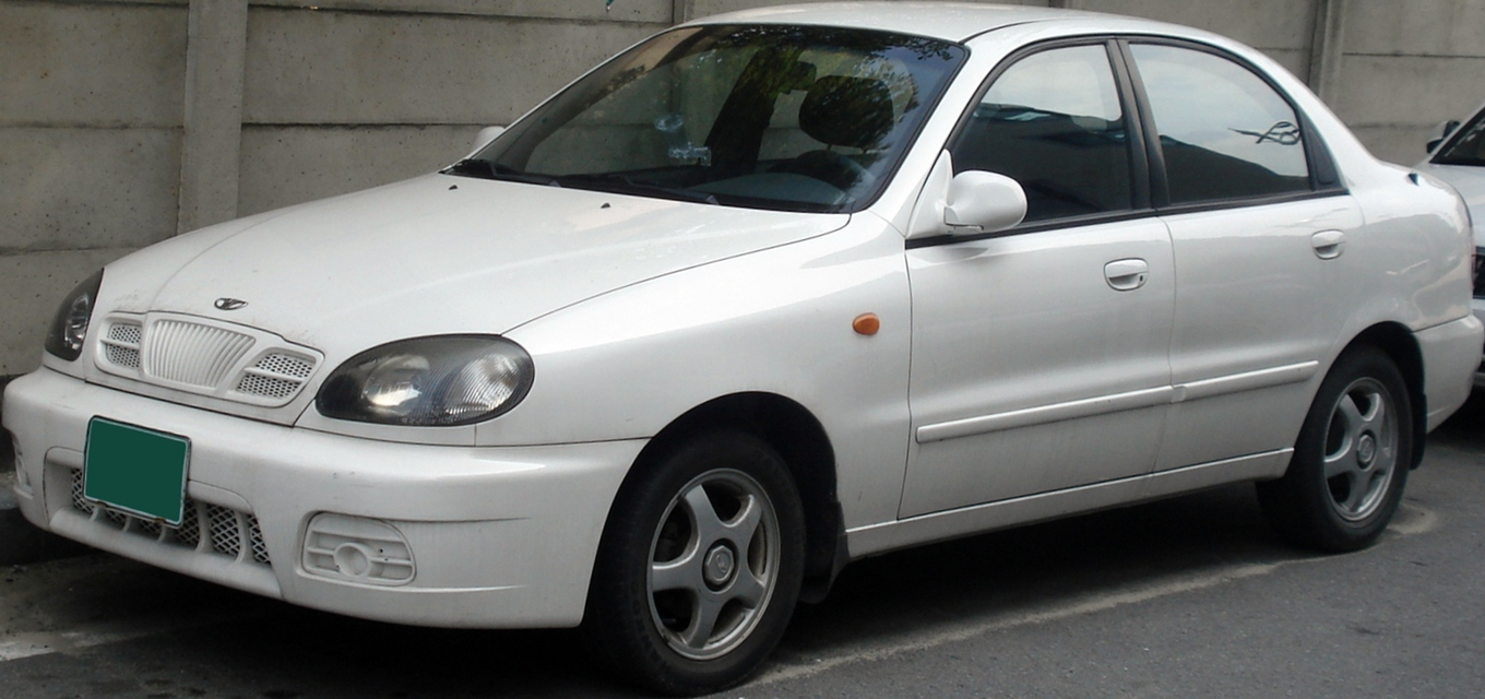 Daewoo Lanos II